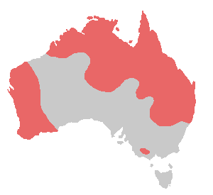 Summary Distribution map of the Red-tailed Black Cockatoo (Calyptorhynchus banksii) Based on Image:BlankMap Australia.png Kiwifruitboi 06:09, 8 January 2006 (UTC)